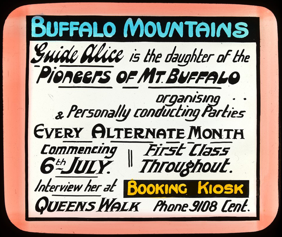 Advertisement for conducted tours by Alice Manfield (Guide Alice) (1878-1960) at Buffalo Mountains, Victoria, Australia. Converted to digital from transparency: glass lantern slide, hand coloured, 8.5 cm x 8.5 cm.